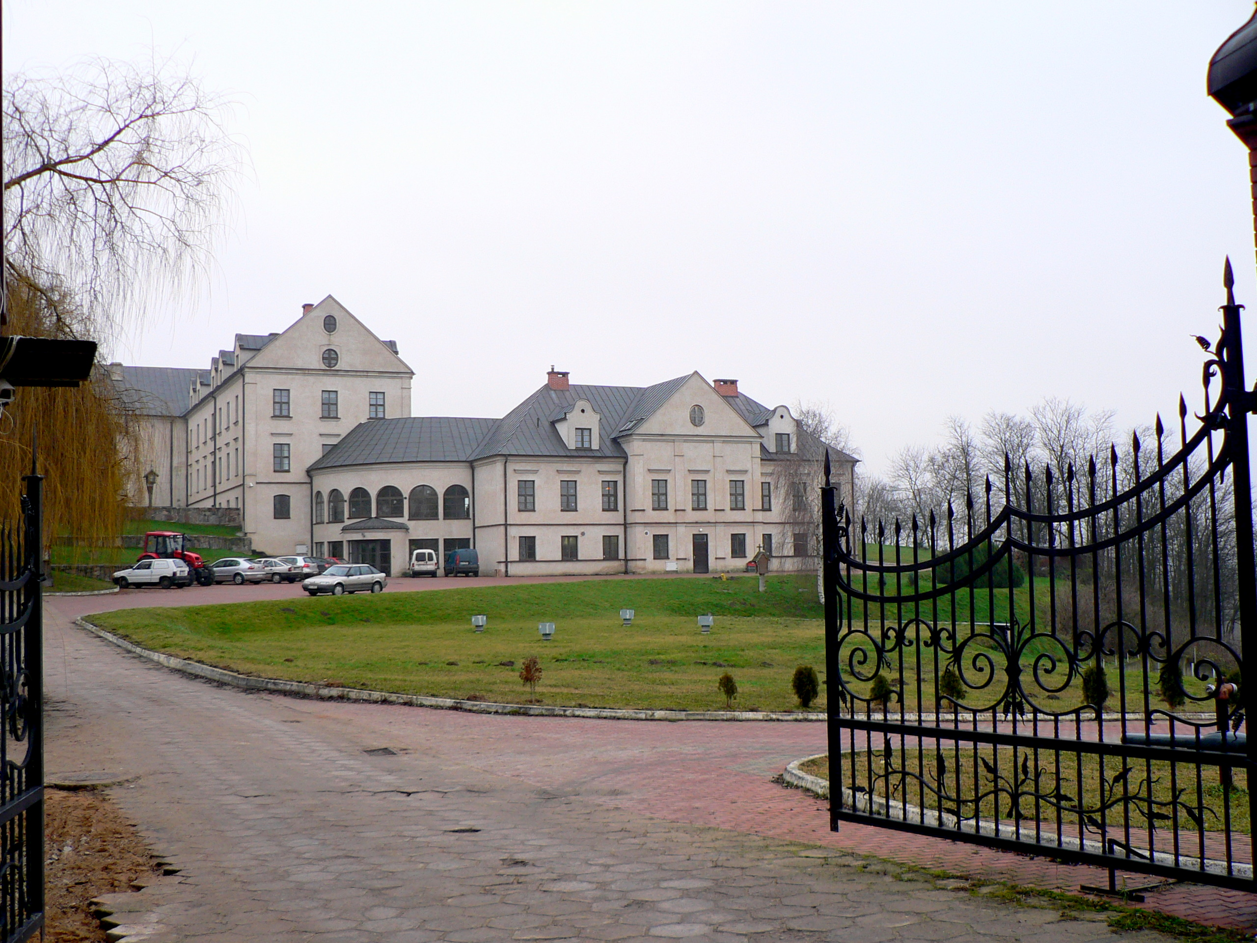 Drohiczyn Diocese buildings, Poland